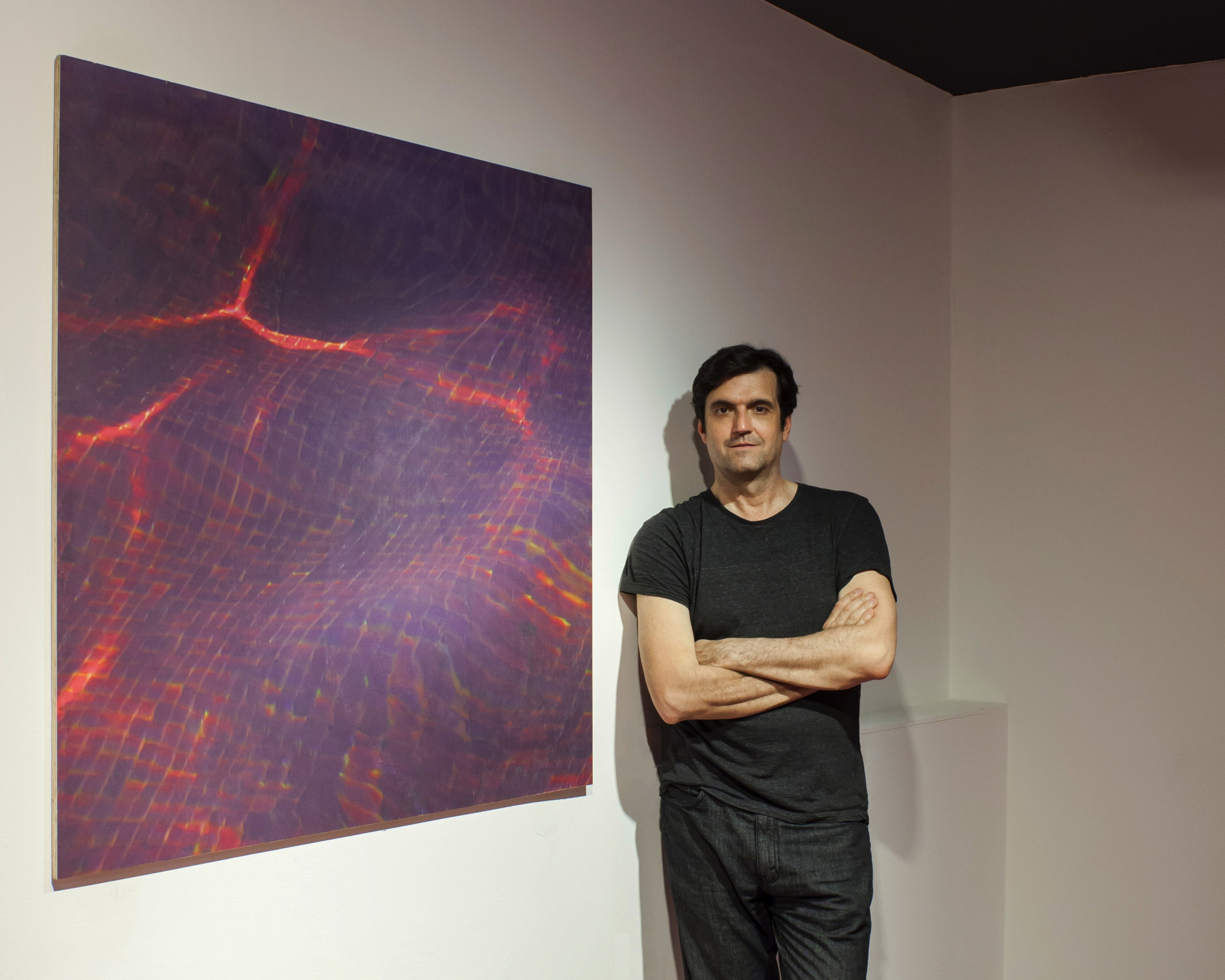 Paul Clemence at the 2016 Venice Biannale. portrait by Andrea Ferro.